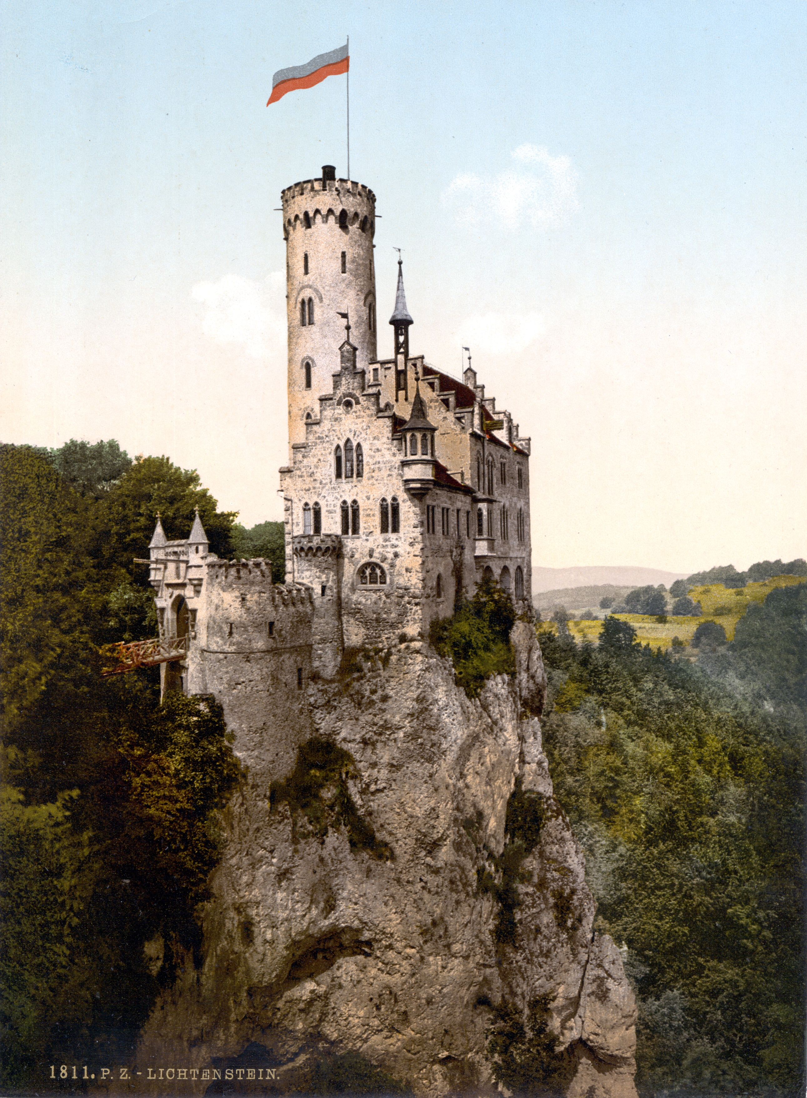 Lichtenstein Castle